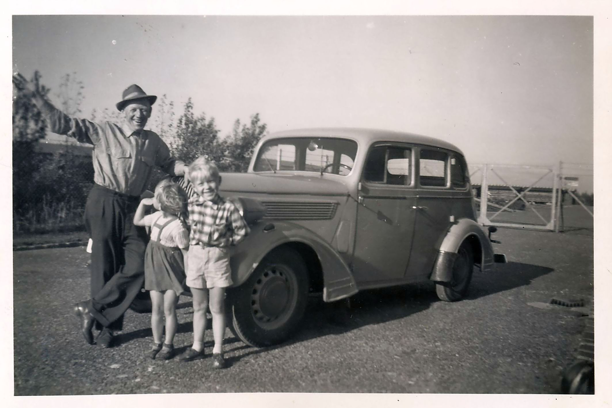 Opel Super 6 from 1937. Picture from Hammer Depot, Vendsyssel, Denmark. July 6, 1959.